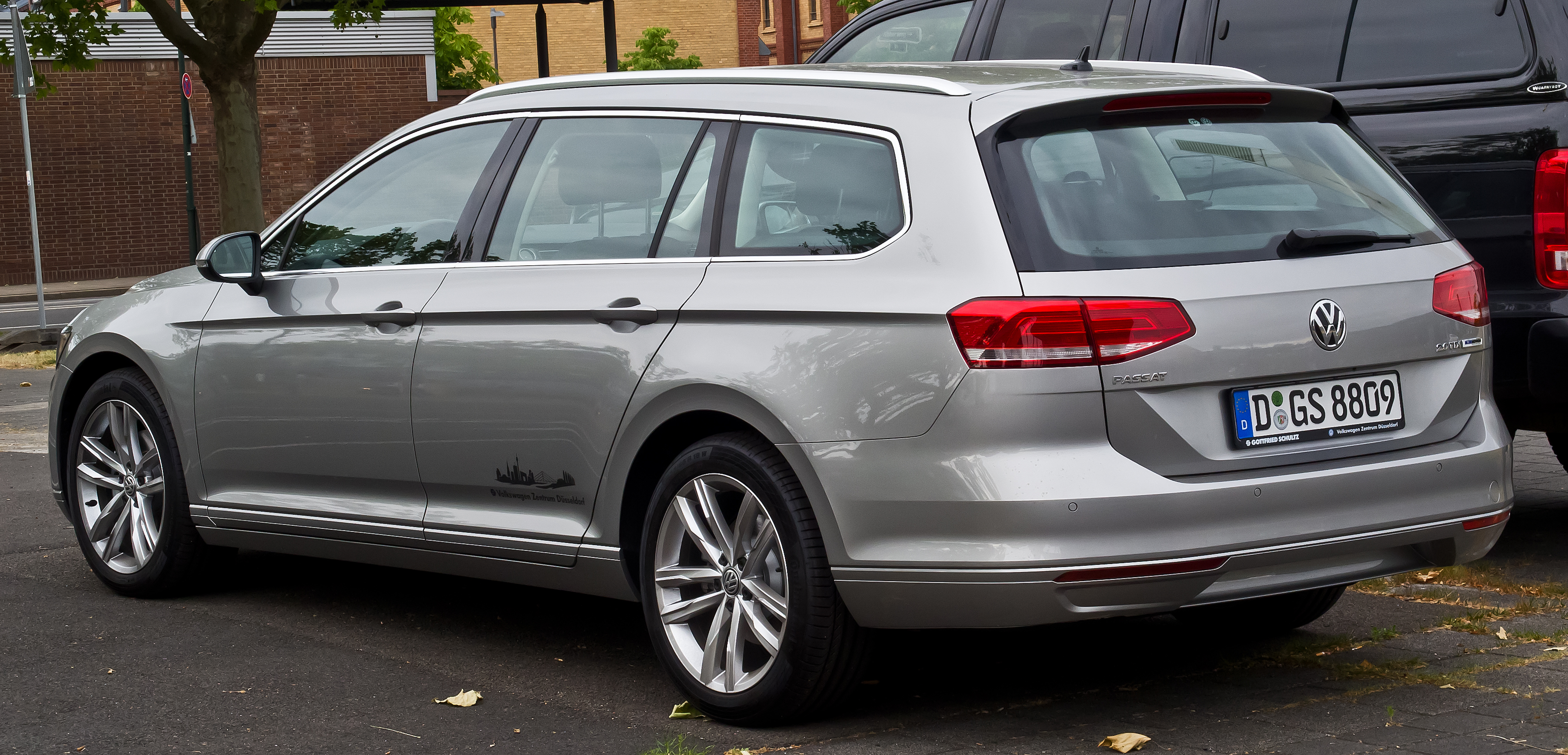 VW Passat Variant 2.0 TDI BlueMotion Technology Highline (B8)